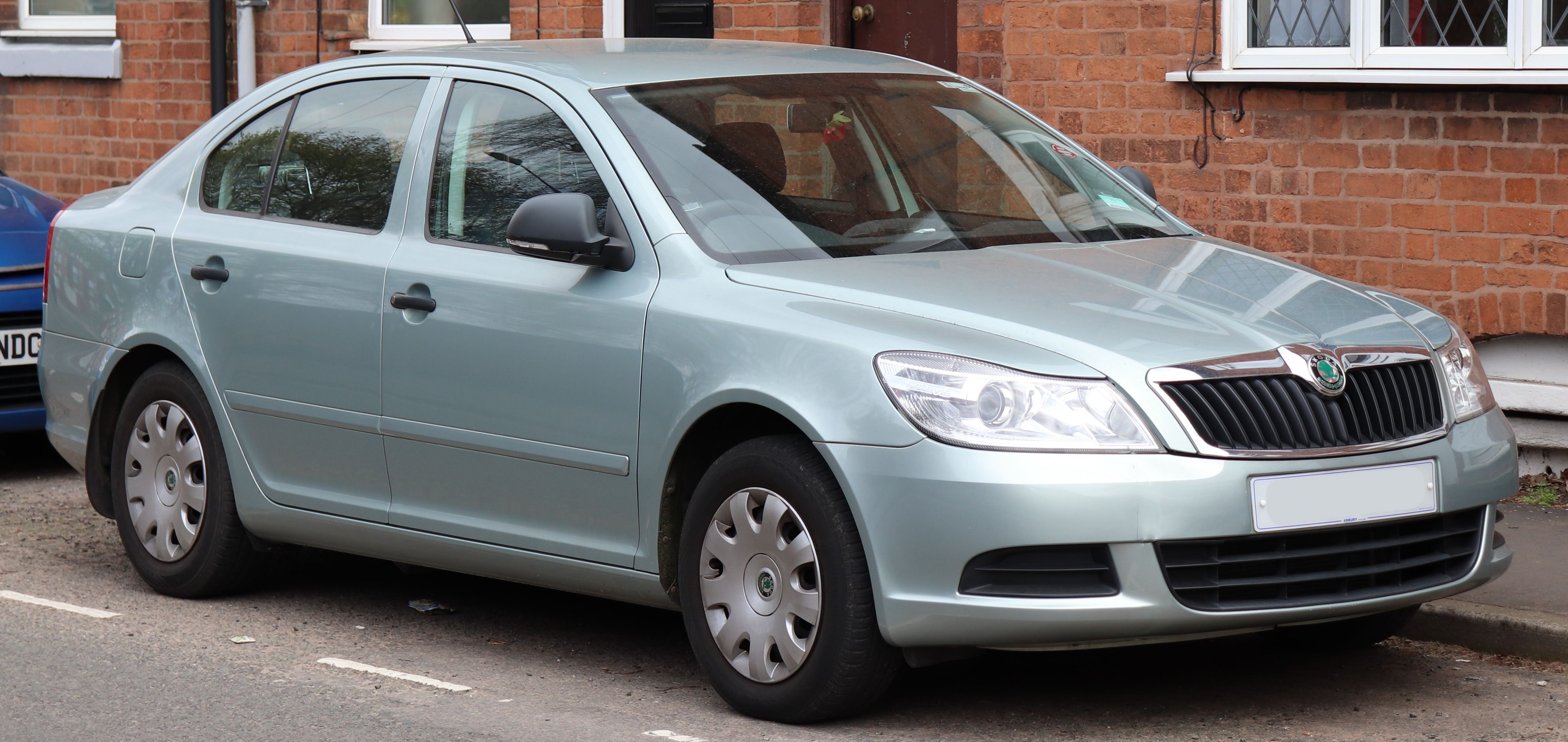 2011 Skoda Octavia S TSi S-A 1.2 Front Taken in Warwick